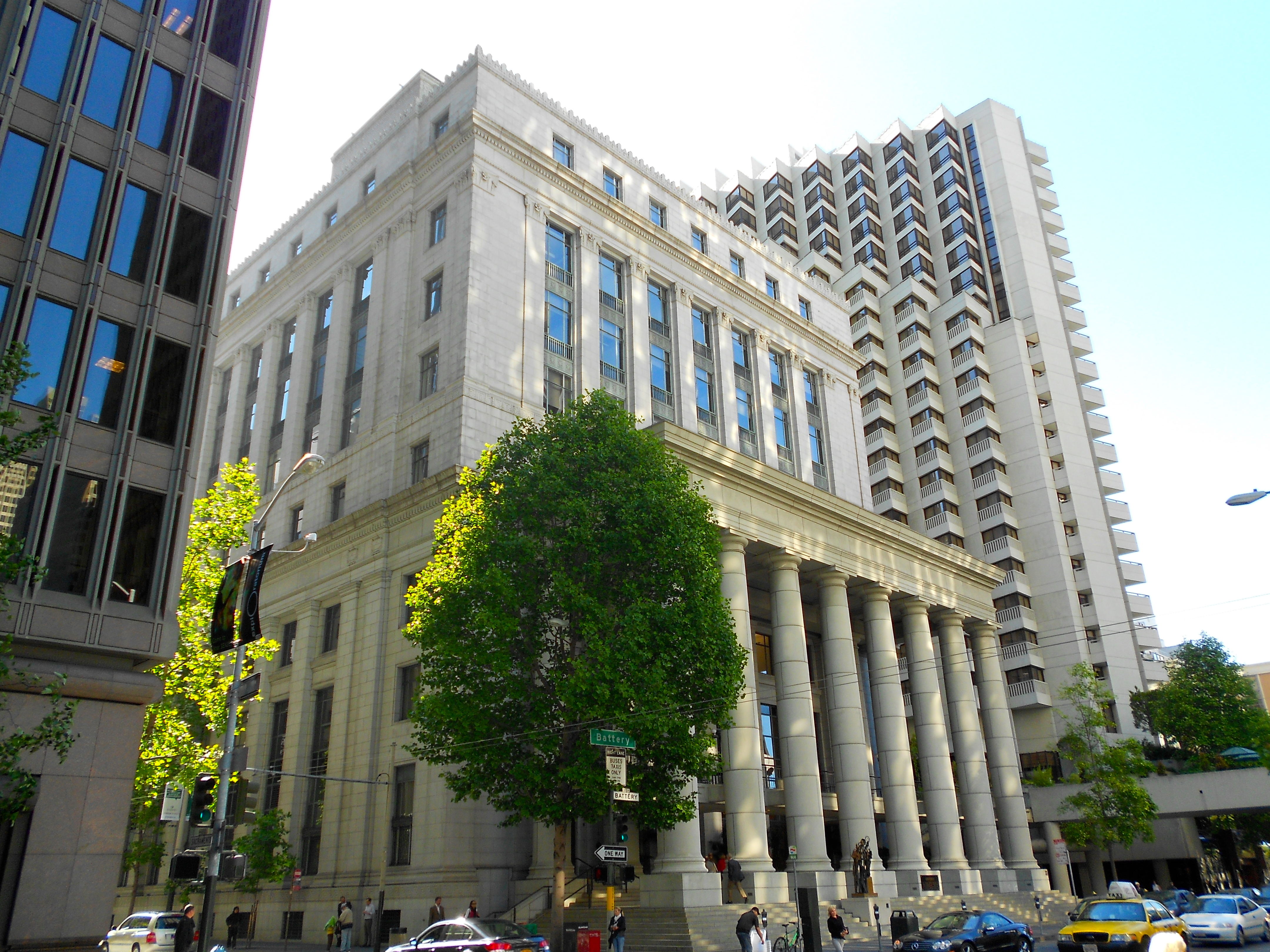 Building at Sacremento and Batery Streets in San Francisco. Stands on top of Apollo (storeship) on the NRHP since May 16, 1991, NW corner of Sacramento and Battery Sts. San Ffrancisco in the Financial District